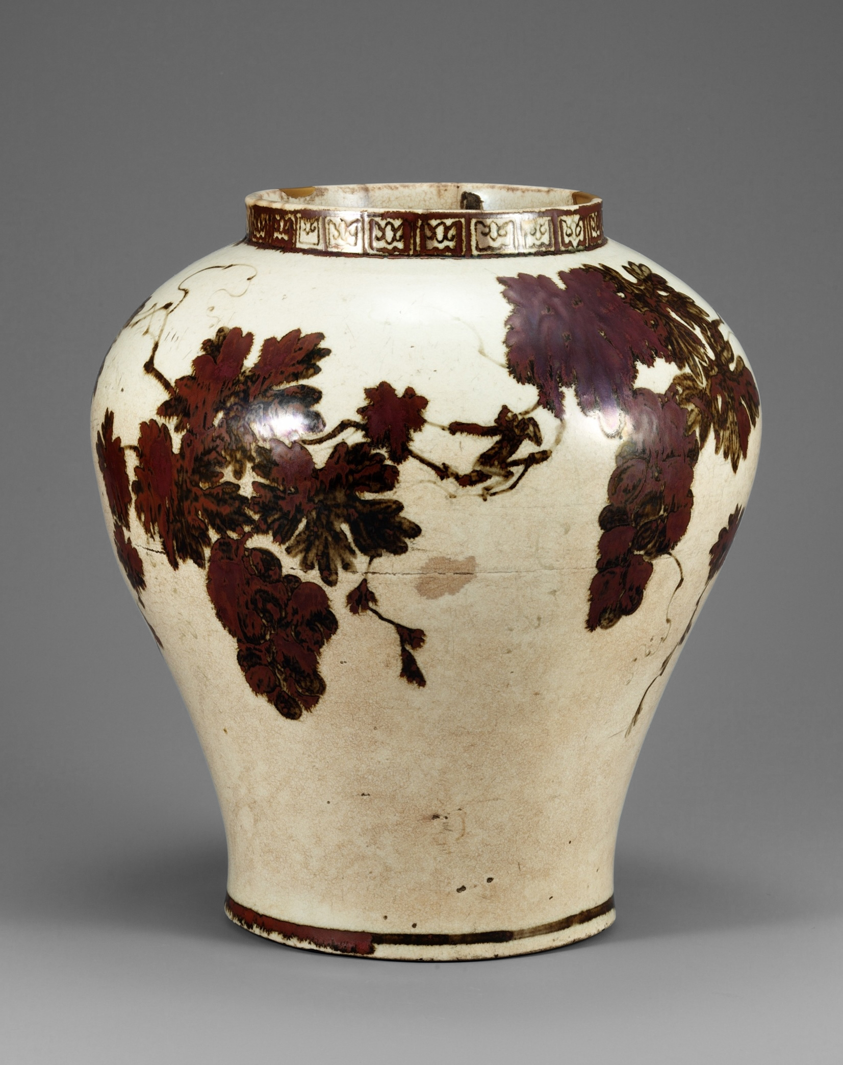 A monkey in the vineyard. Vase, jar. White porcelain painted in brown iron. H. 31 cm. Joseon period, seventeenth or eighteenth century. National Treasury, National Museum of Korea. National Treasure of Korea No.93